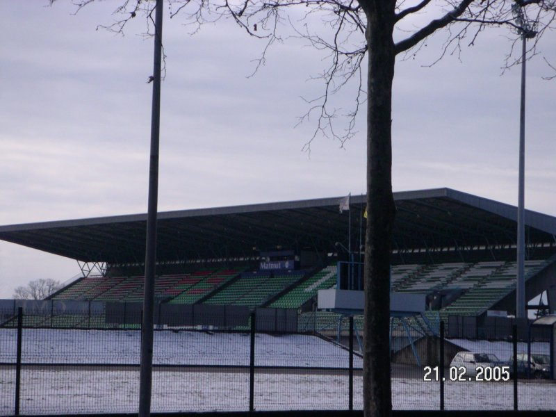 Main Stand, Stade Maurice Trelut - Tarbes, France.